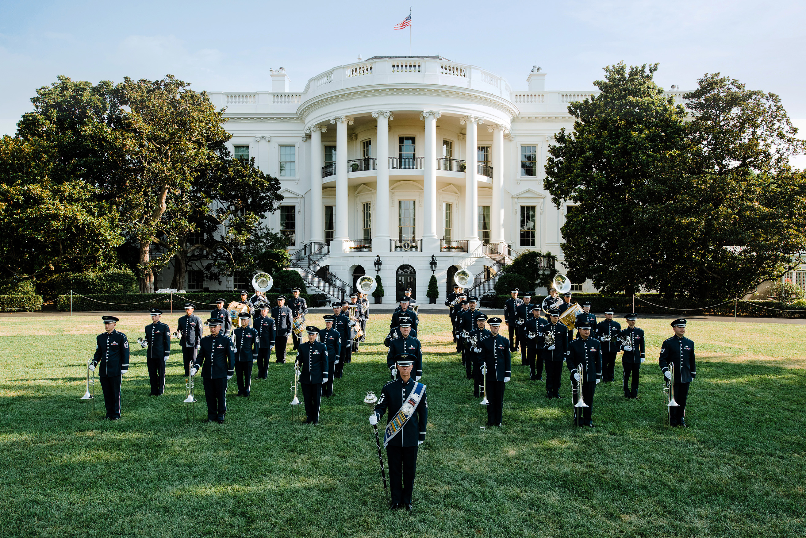 Official picture of The U.S. Air Force Ceremonial Brass. Stationed at Joint Base Anacostia-Bolling in Washington, D.C., it is one of six ensembles that comprise The U.S. Air Force Band.